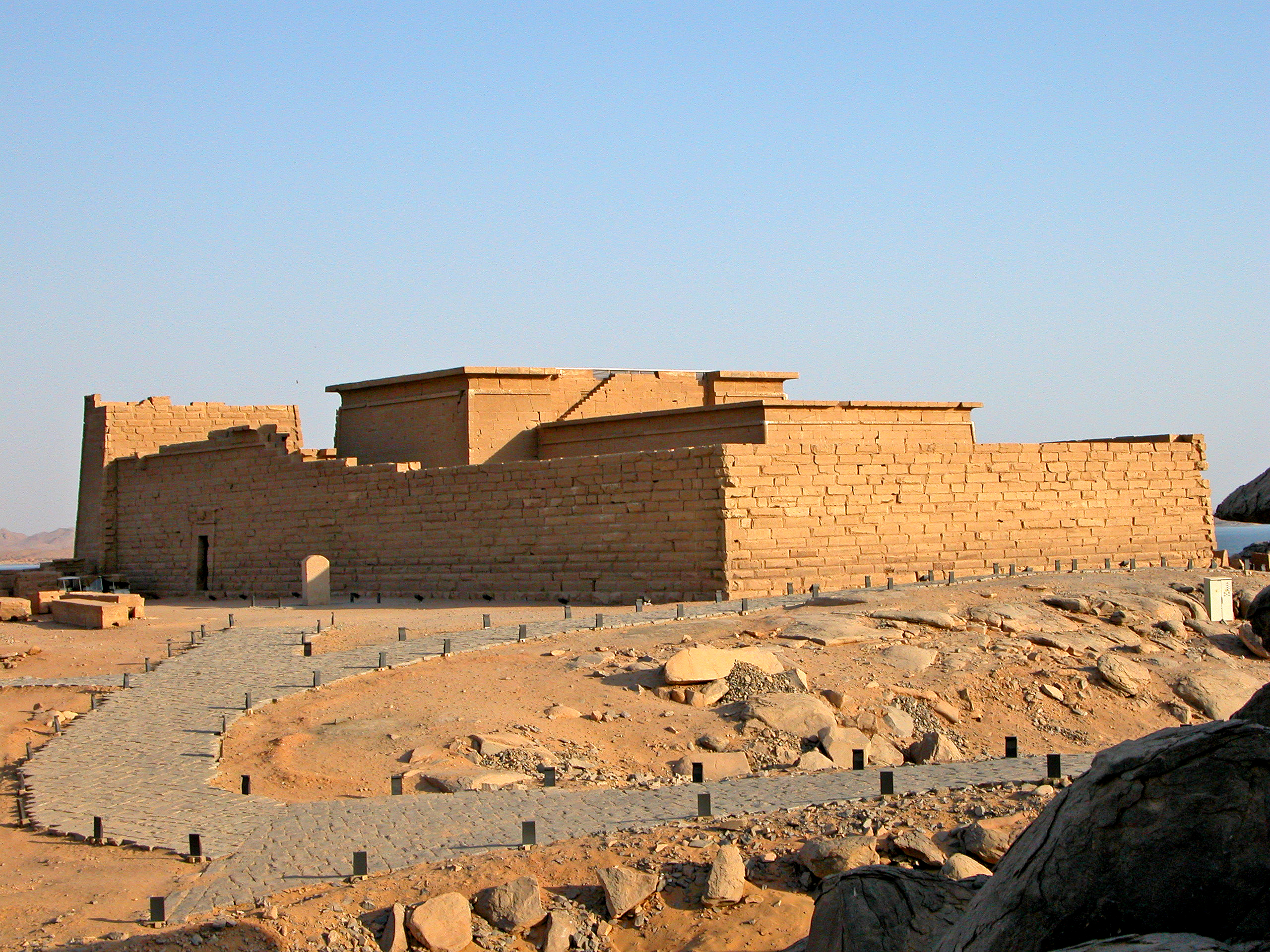 A unique rear facing picture of the Ancient Egyptian temple of Kalabsha in Nubia as seen from the Temple of Beit al-Wali..